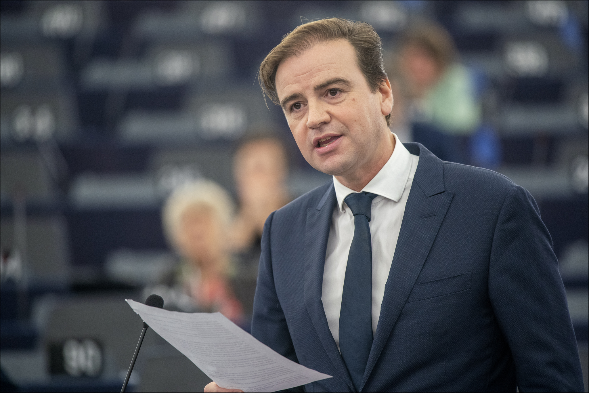 Malik Azmani during a debate calling for measures against Turkey following military operation in Syria in the European Parliament